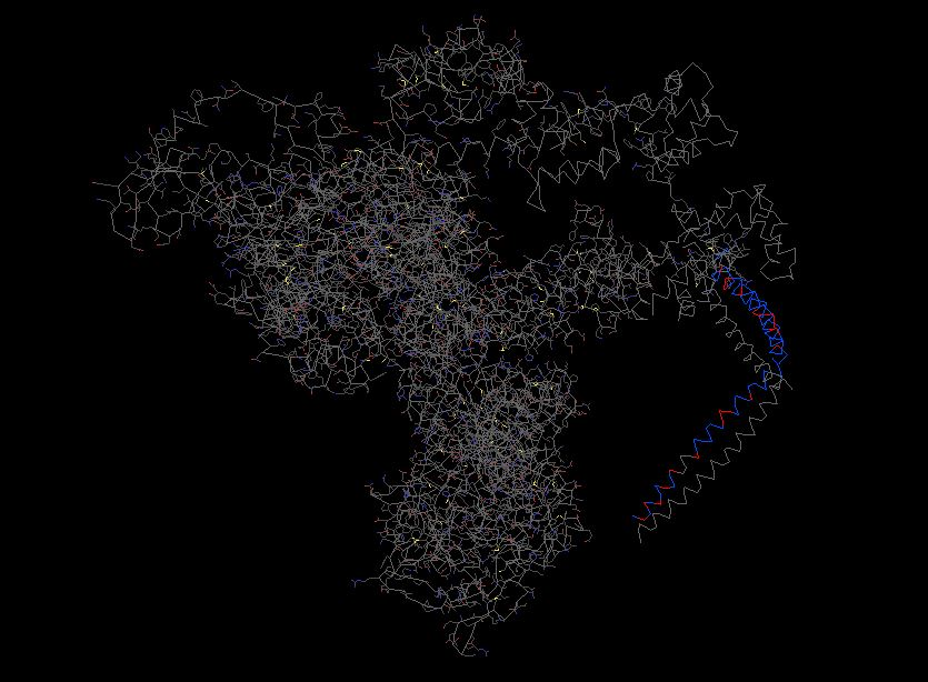 1I84 S, Heavy Meromyosin Subfragment Of Chicken Gizzard Smooth Muscle Myosin With Regulatory Light Chain In The Dephosphorylated State 3d structure. Highlighted region is conserved in SOGA2.